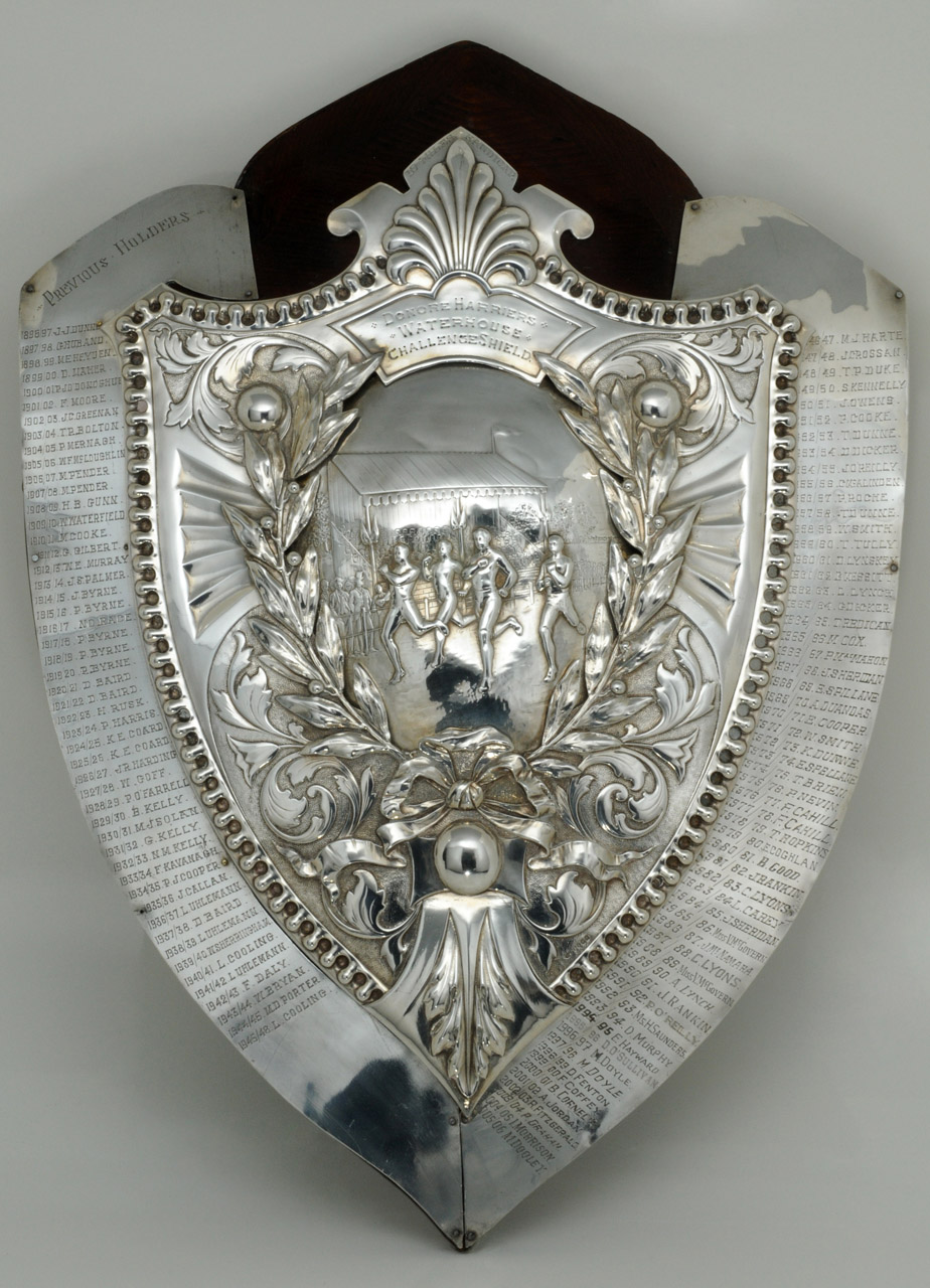 The Waterhouse Byrne Baird Shield Trophy for the 10 Mile Cross Country Handicap. Dating back to 1896